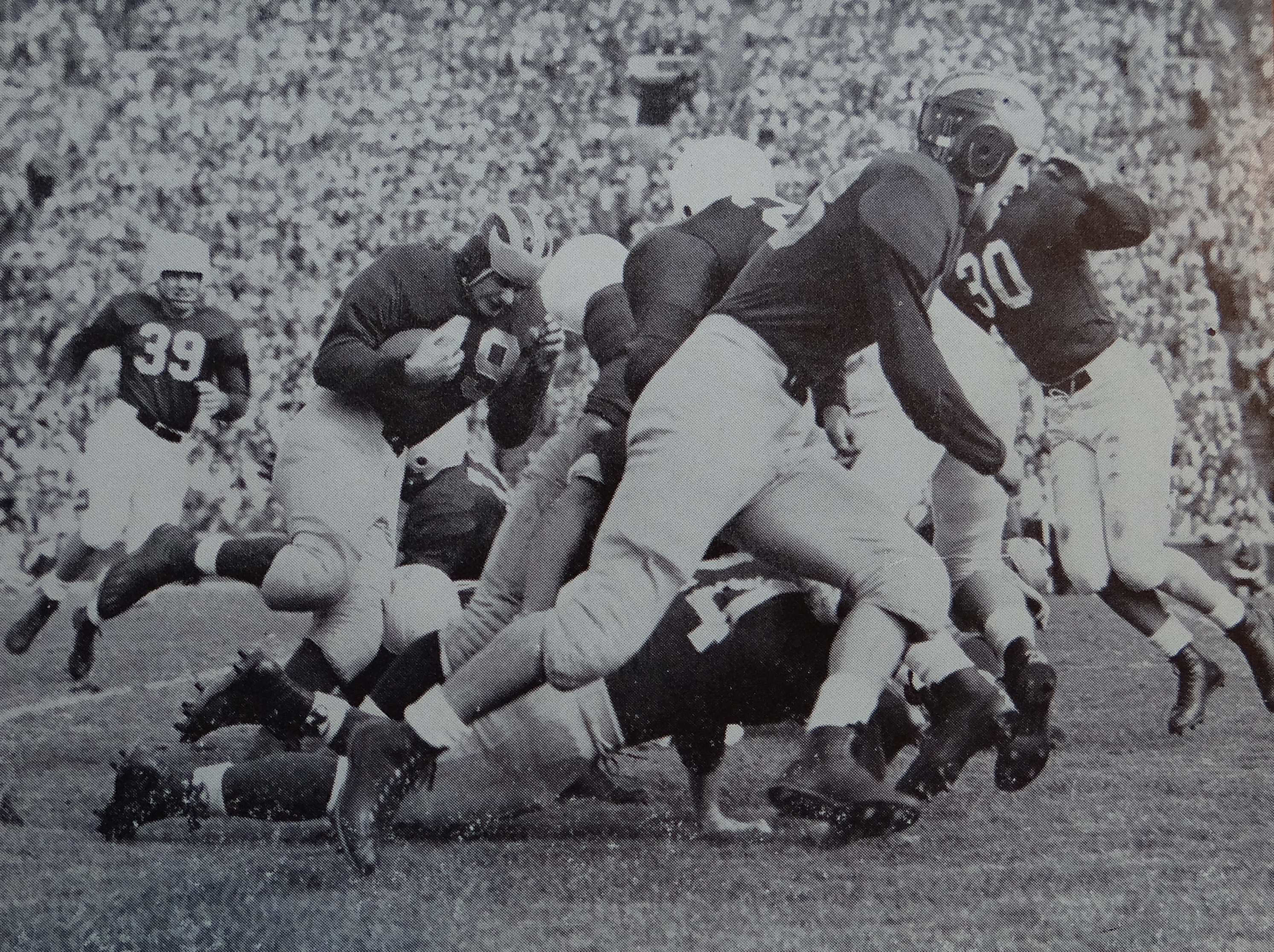 "Jack Weisenberger paves the way for All-American Bob Chappuis" against Stanford on October 4, 1947 Photograph of "Jack Weisenberger paves the way for All-American Bob Chappuis" against Stanford on October 4, 1947